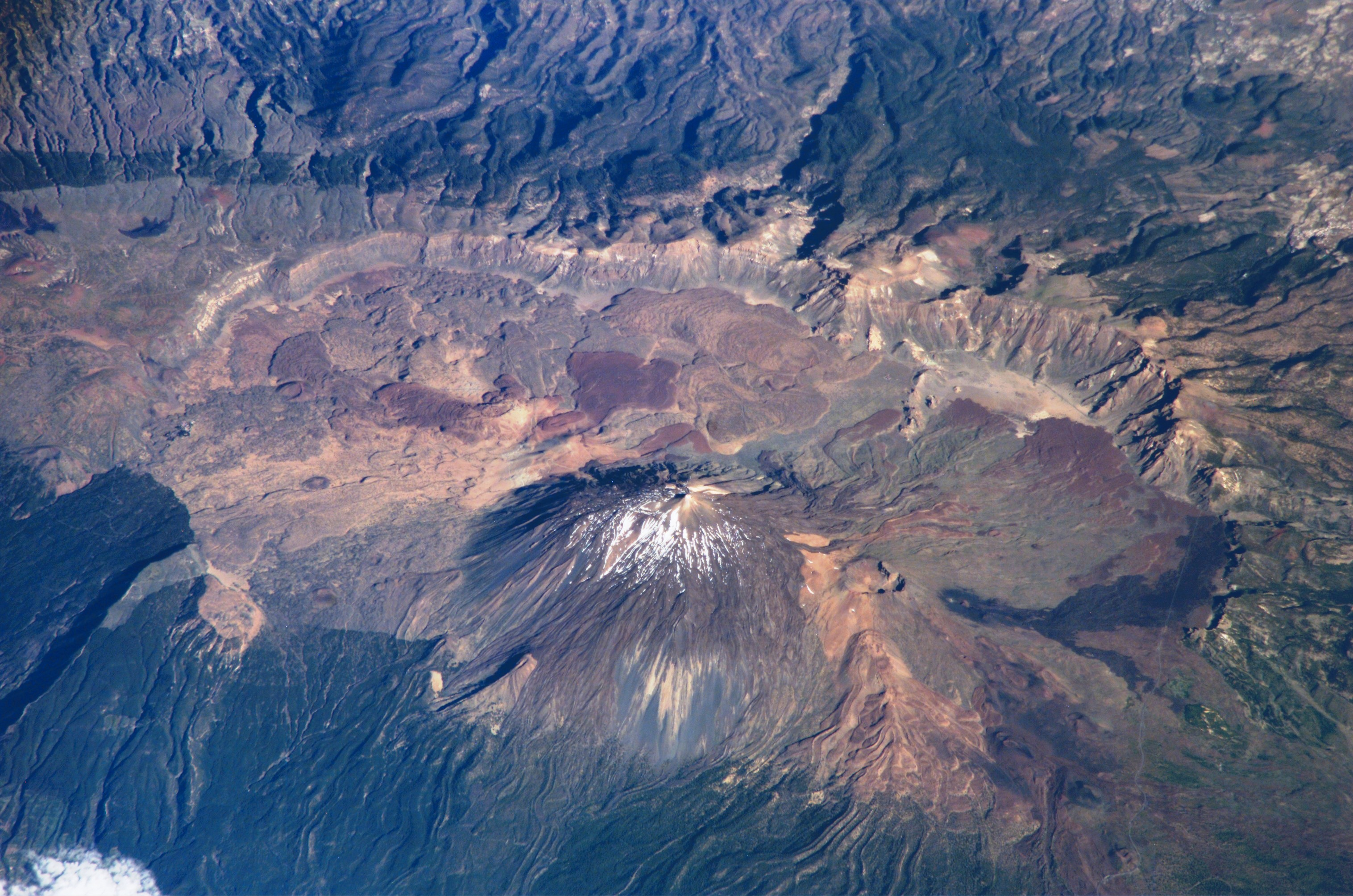 Pico del Teide. NASA shot, reference ISS013-E-23272. Mission: ISS013 Roll: E Frame: 23272 Mission ID on the Film or image: ISS013 Country or Geographic Name: CANARY ISLANDS Features: TEIDE VOLCANO,TENERIFE Center Point Latitude: 28.3 Center Point Longitude: -16.6 (Negative numbers indicate south for latitude and west for longitude)